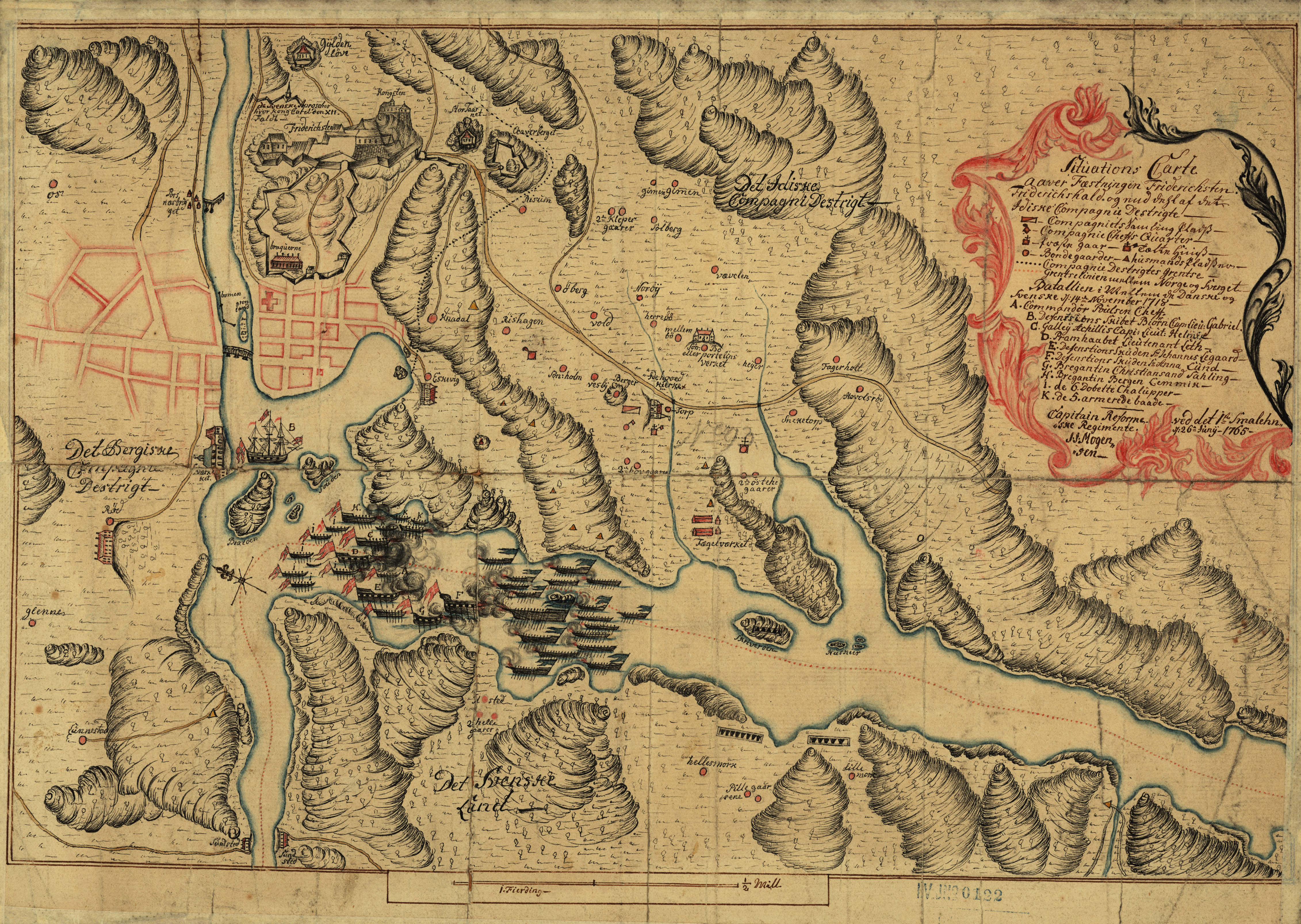 Map of Fredrikshald (Halden), Norway, 1765Norsk bokmål: Kart over Fredrikshald (Halden) 1765